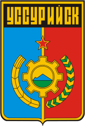 Ussuriysk (Primorsky krai), coat of arms (1976)